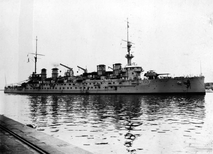 French armored-cruiser Jules Michelet, carrying the Governor-General of French Indochina, mooring in the harbor of Tandjong Priok.